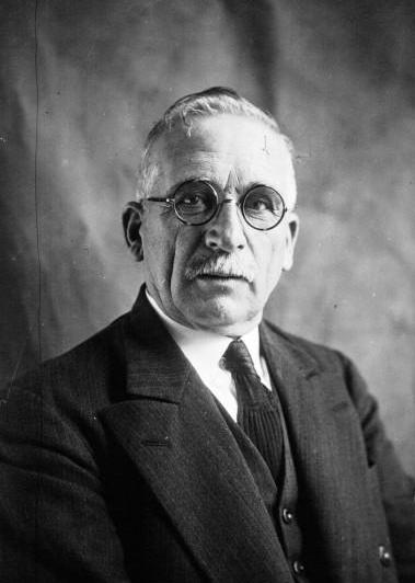 Portrait of the Occitan politician Loís Gròs.